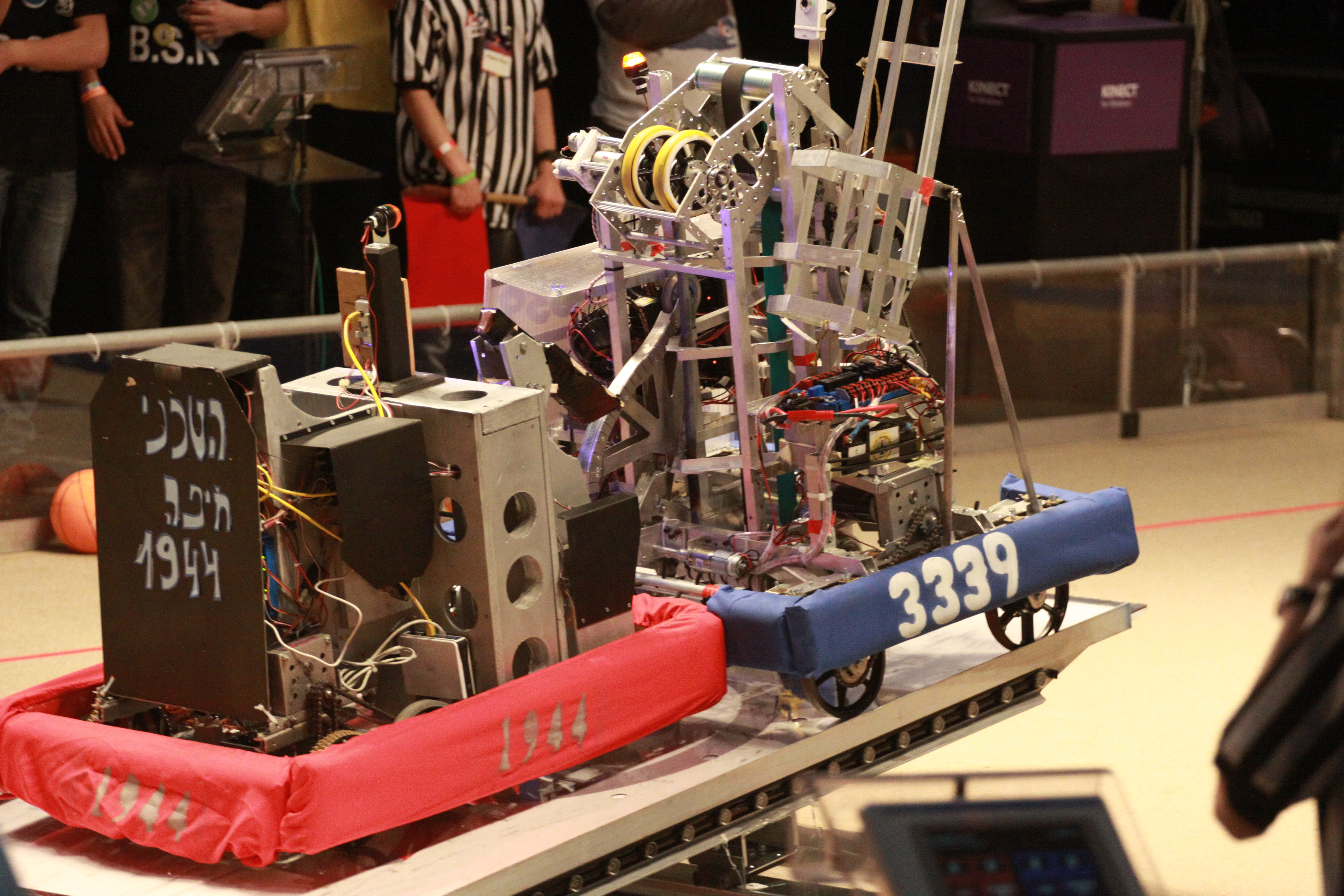 FIRST Robotics Competition, Israel, 2012. Bridge balacing